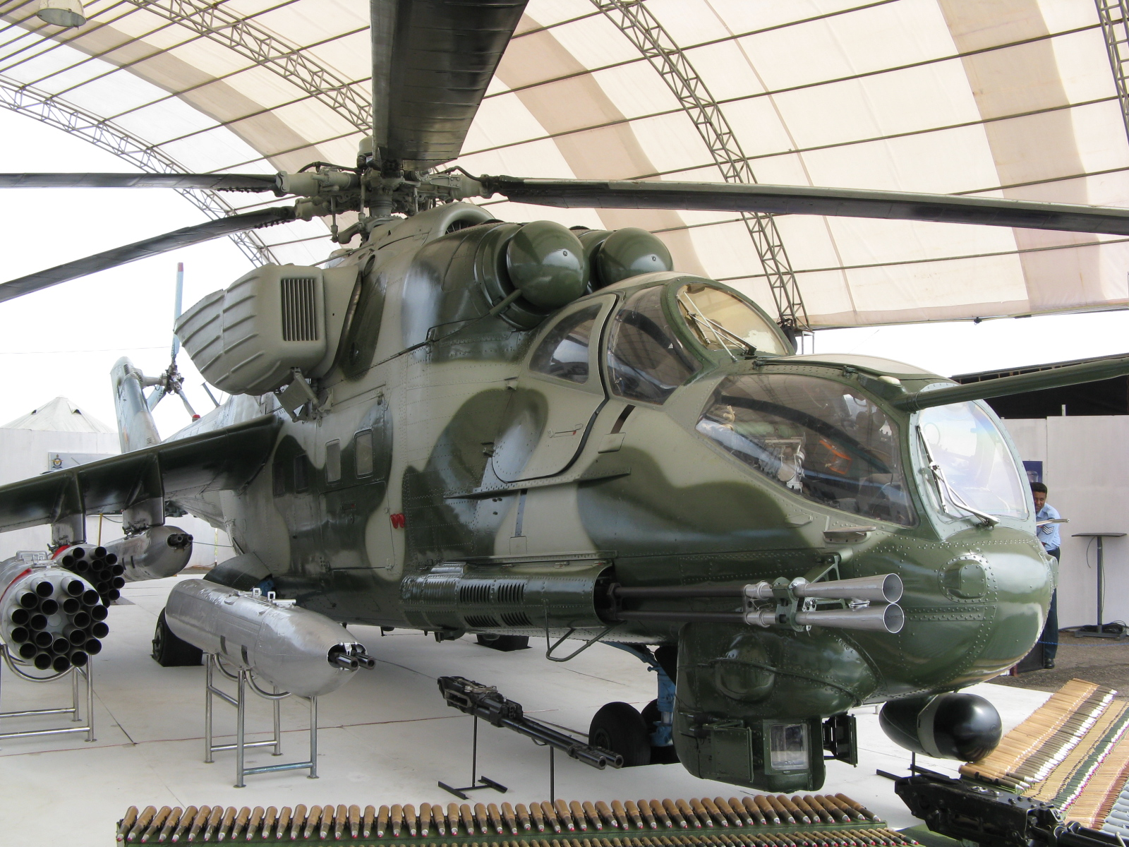 Mi-24V Attack Helicopter - Sri Lanka Air Force